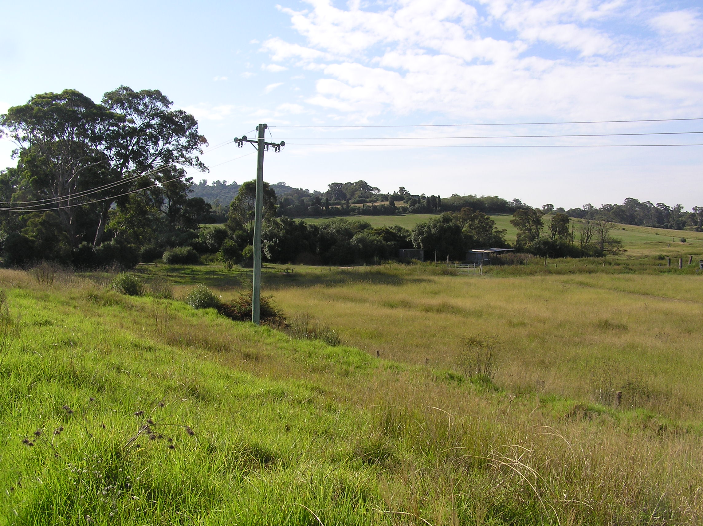 Varrowville Rural view